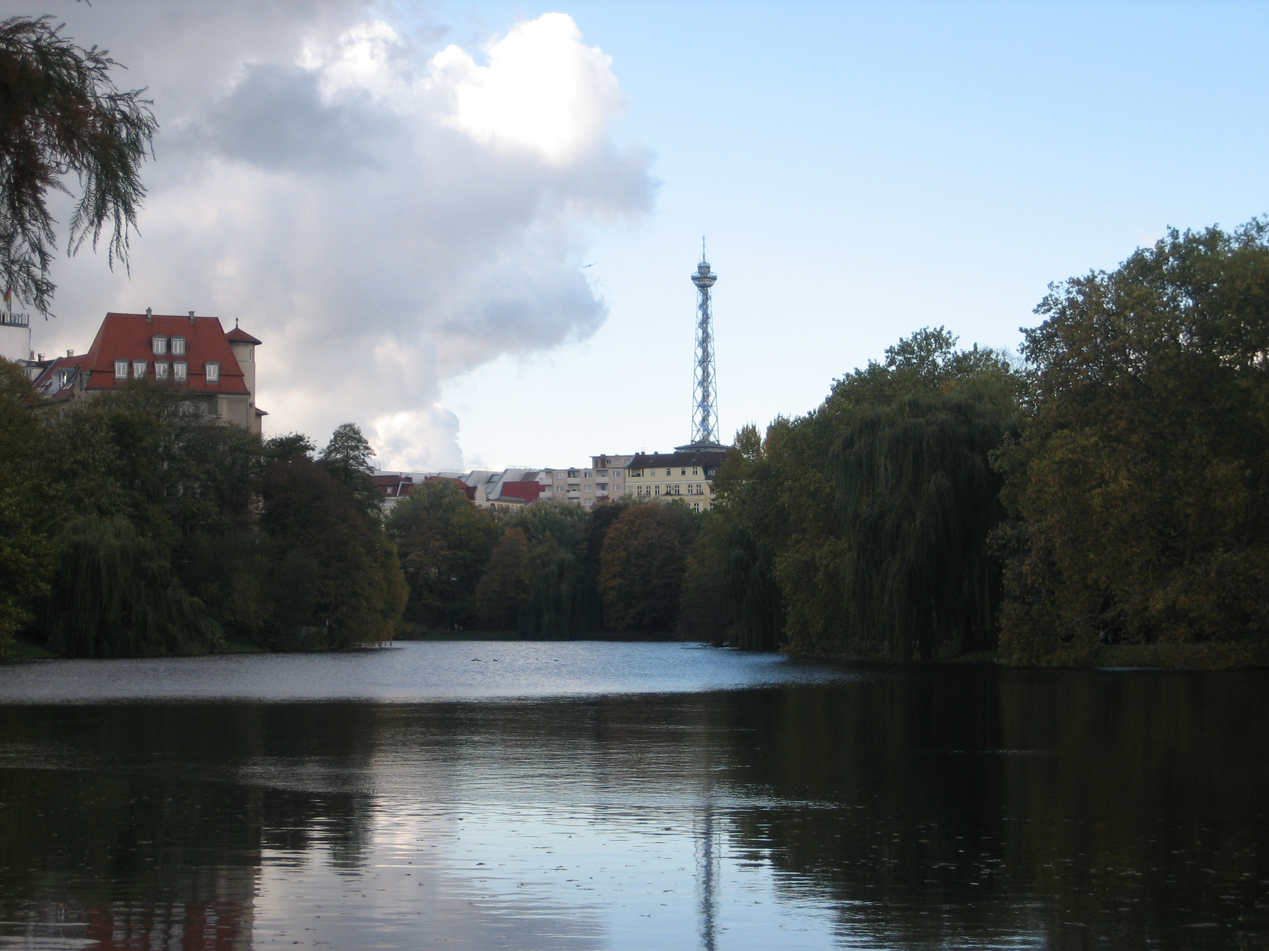 Lietzensee lake, Berlin. Im Hintergrund der Funkturm.